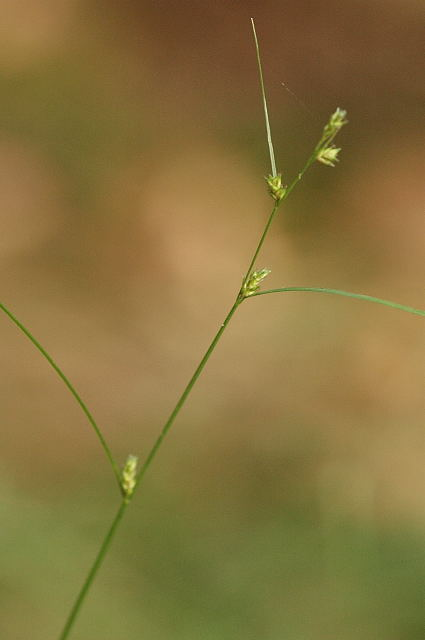 Picture taken in Commanster, Belgian High Ardennes . Species: Carex remota